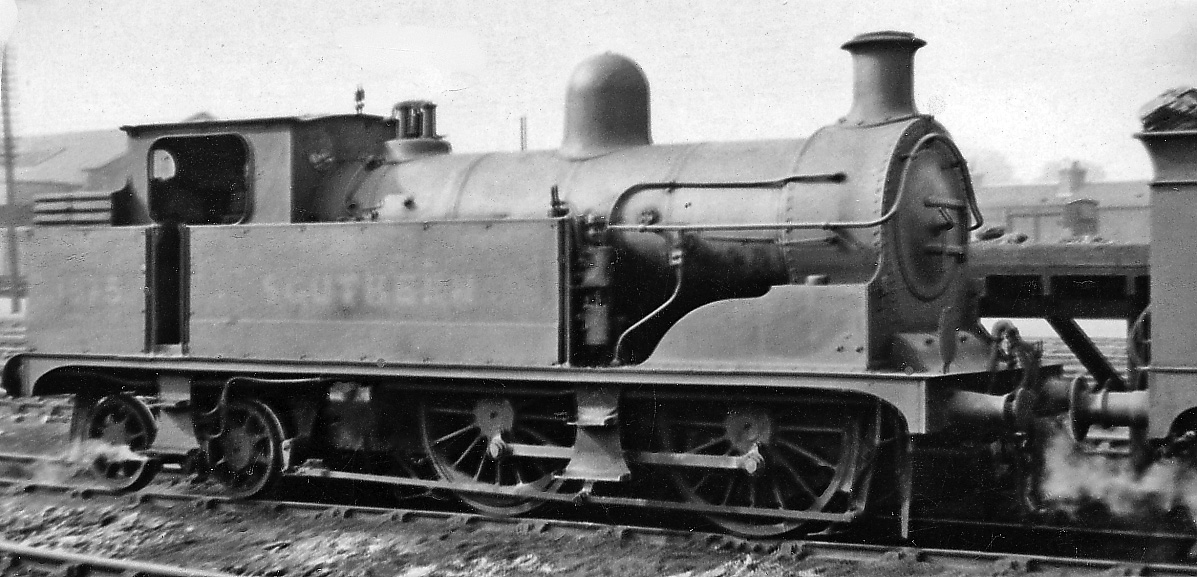 Surviving London, Chatham & Dover 0-4-4T at Tonbridge Locomotive Depot. LC&DR Kirtley R class 0-4-4T No. 1675 (built 12/1891, withdrawn 10/52) had been ousted by electrification some 20 years earlier from its original work on London suburban services to country branch lines.